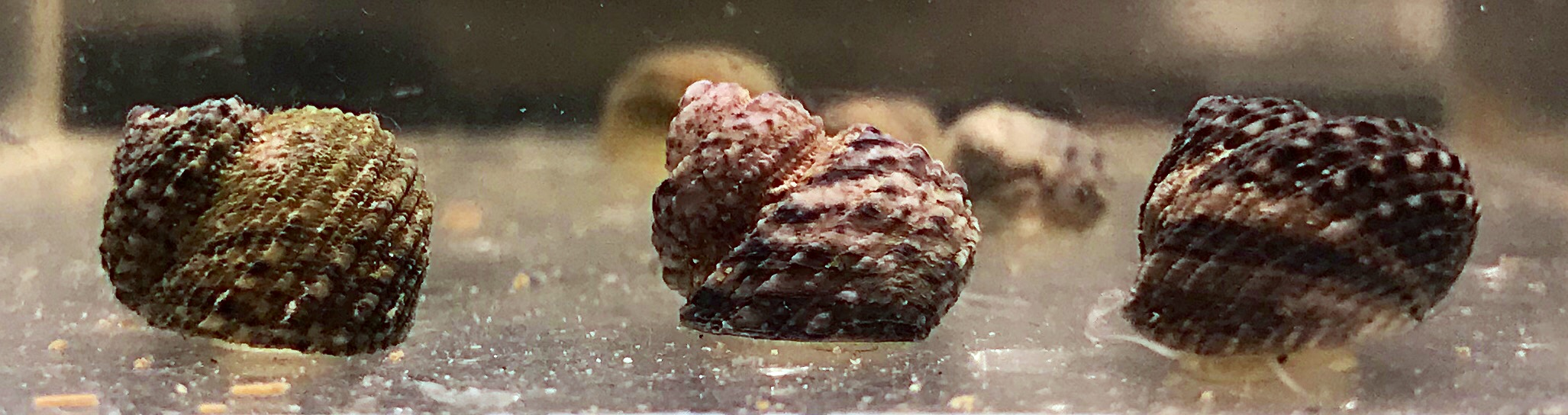 Three live Chilodontaidae gastropods